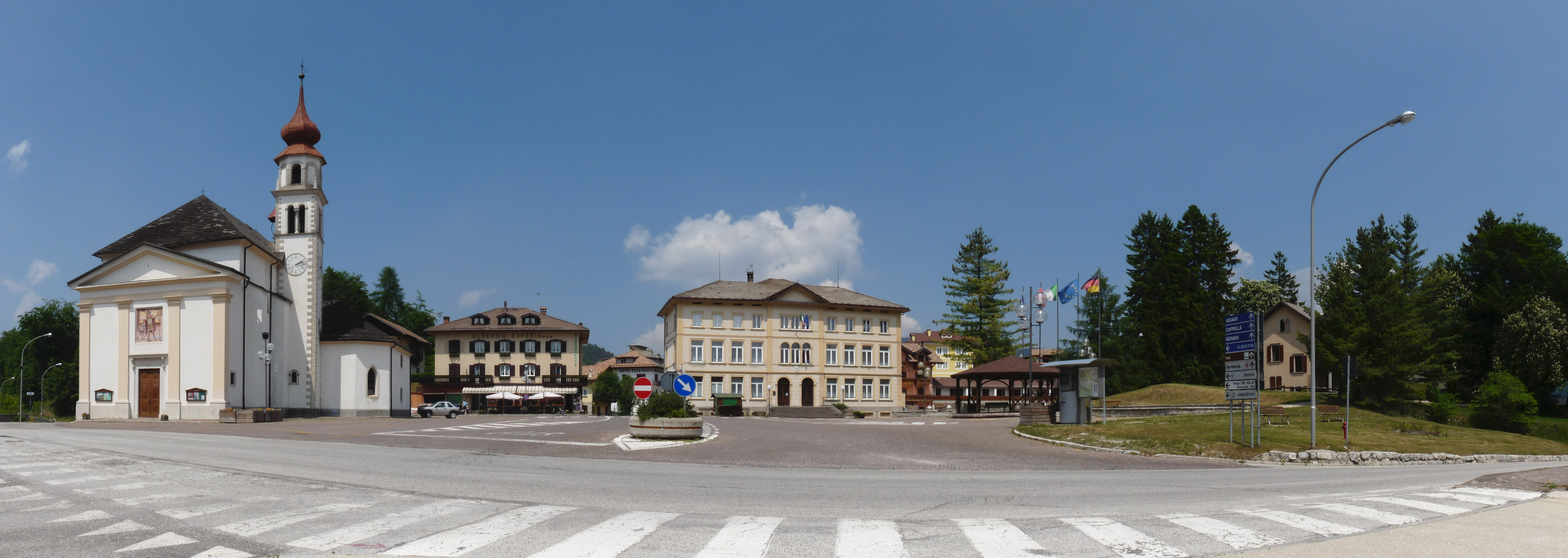 Lavarone (Italy): view of Piazza Italia in the village of Chiesa